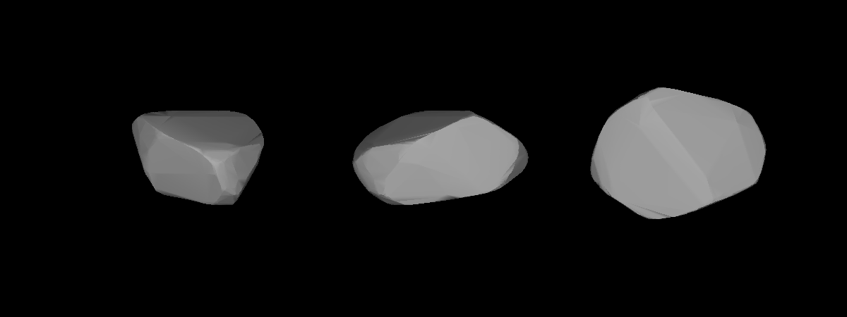 A three-dimensional model of 6403 Steverin that was computed using light curve inversion techniques.